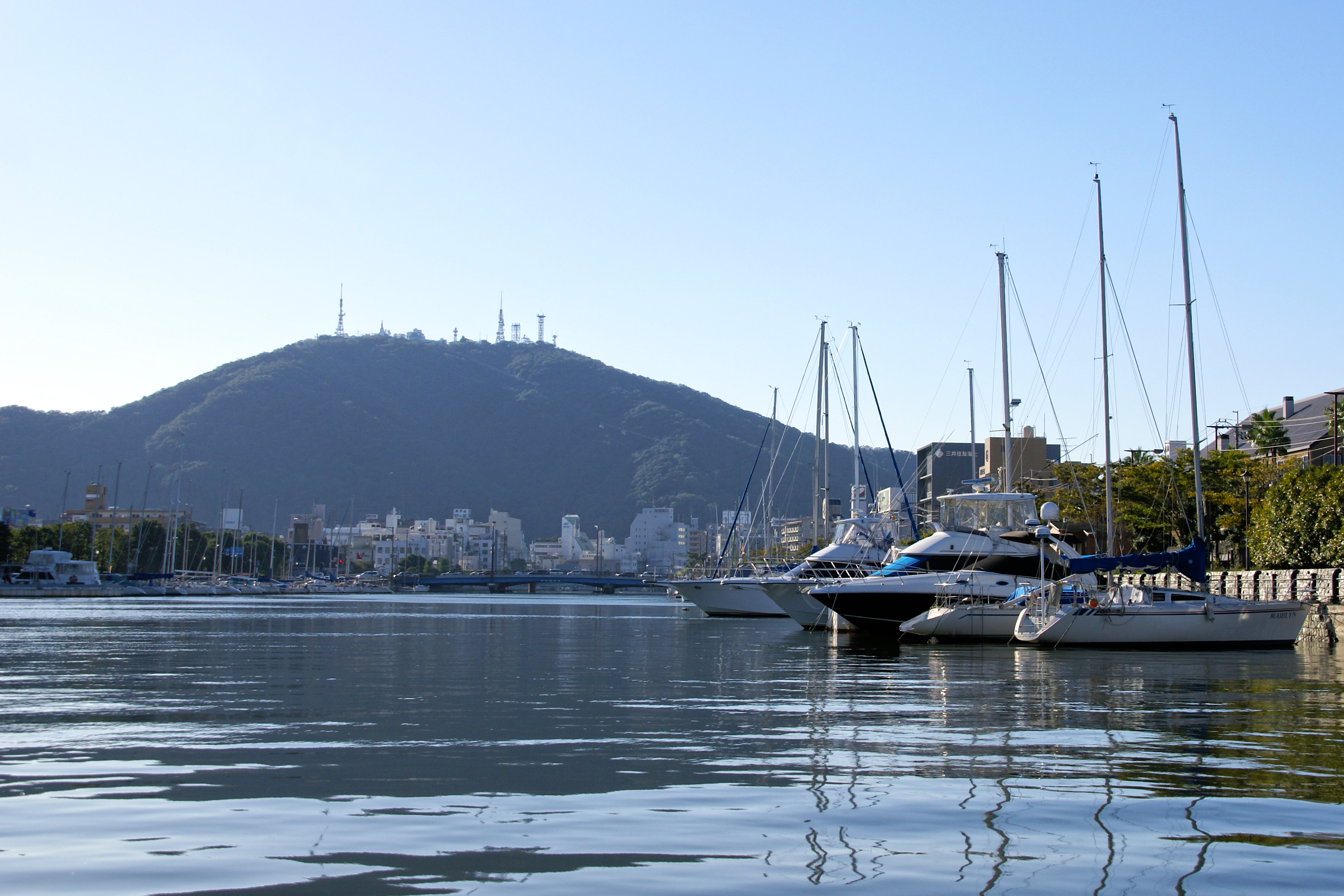 Mt. Bizan view from Kenchopia in Tokushima, Tokushima prefecture, Japan